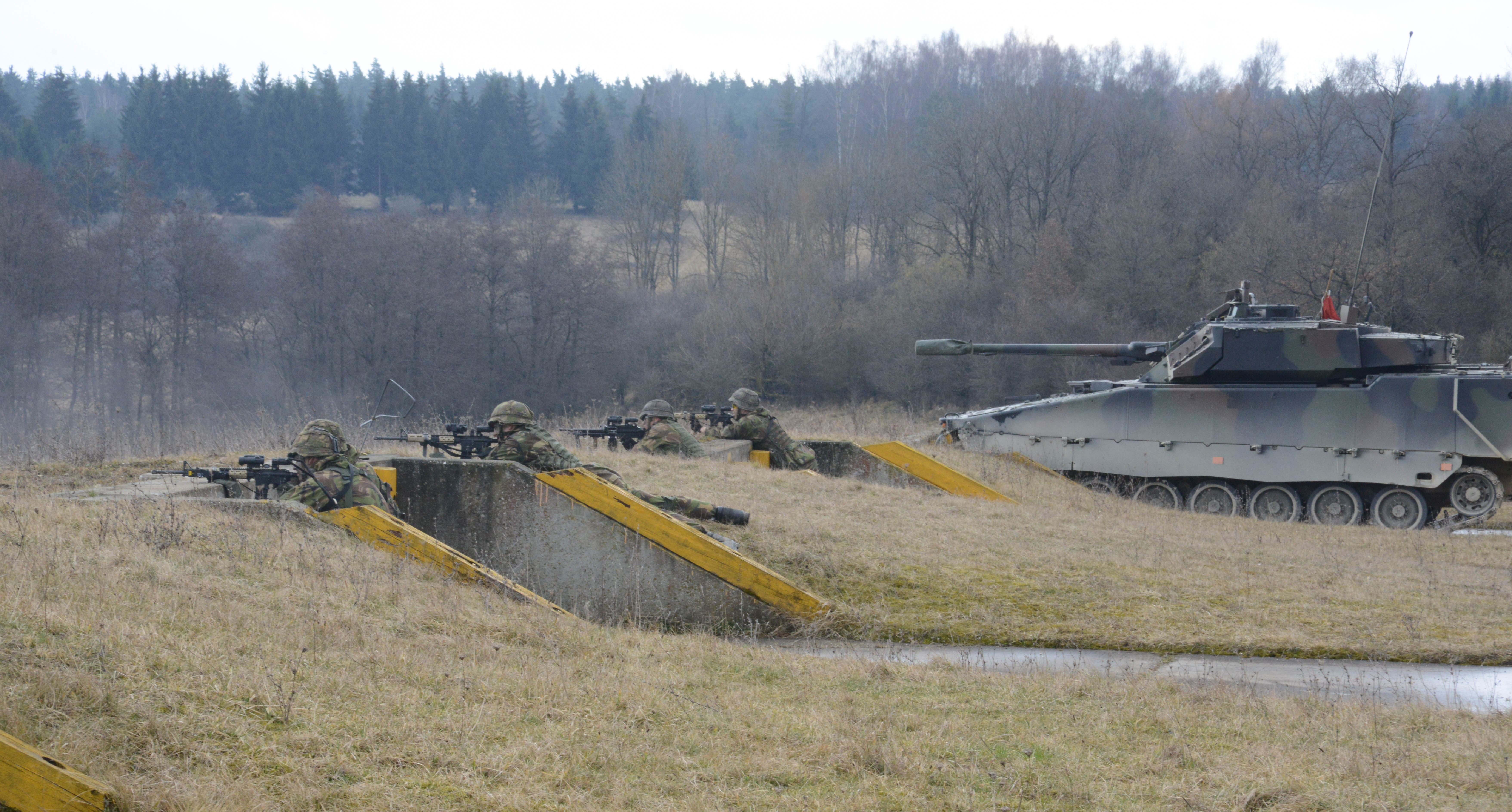 The 44th Mechanized Battery Infantry Regiment, Charlie Company, 2nd Platoon, conduct counter ambush and bounding techniques with light infantry soldiers and heavy armor CV90 tanks during exercise European Union Battle Group. European Union Battlegroup 2014-02, the European Union’s quick reaction force, is training 1,550 soldiers from Belgium, the Netherlands, Luxembourg, Spain and the former Yugoslavian Republic of Macedonia as part of the certification training. (Photo by U.S. Army Spc. Franklin R. Moore/Released)